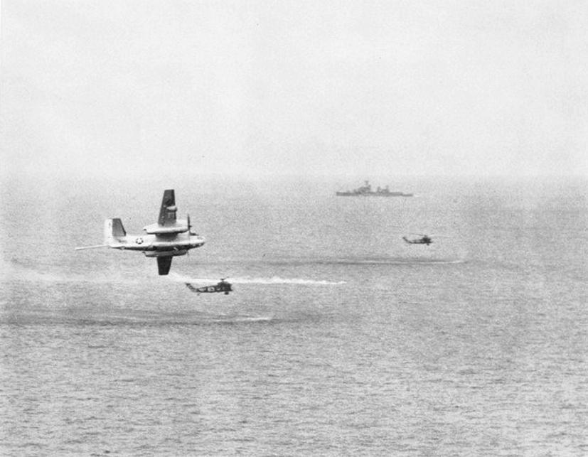 A view showing the main assets of U.S. Navy anti-submarine warfare in the early 1960s: A Grumman S2F-1S Tracker, with its magnetic anomaly detector extended, is visible on the left. Two Sikorsky HSS-1N Seabat helicopters using dipping sonars near a smoke marker are visible in the center, and a FRAM-modernized Allen M. Sumner-class destroyer is visible in the background. The aircraft were from Carrier Anti-Submarine Air Group 59 (CVSG-59) which was assigned to the aircraft carrier USS Bennington (CVS-20) for a deployment to the Western Pacific from 7 January 25 July 1962.